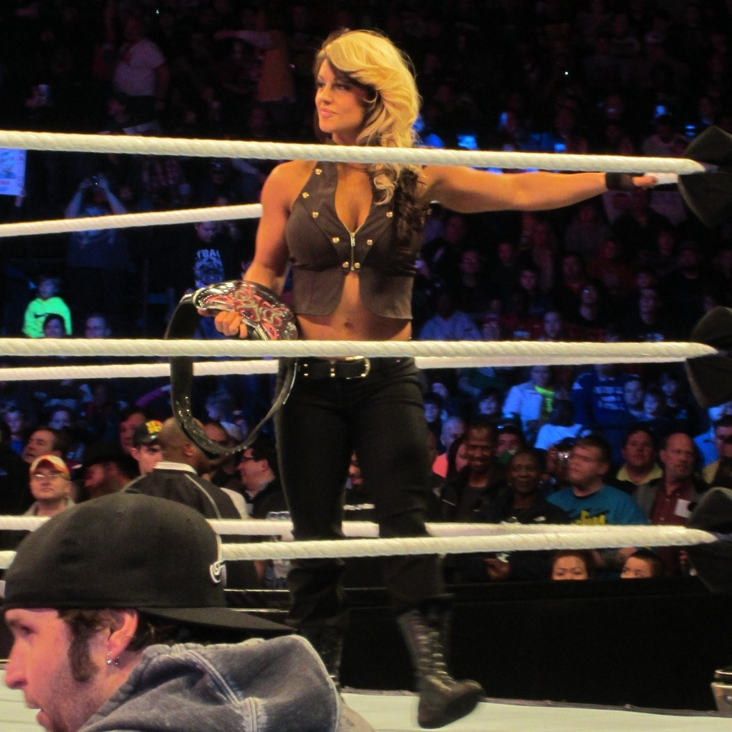 Kaitlyn as Divas Champion during a WWE Superstars taping.